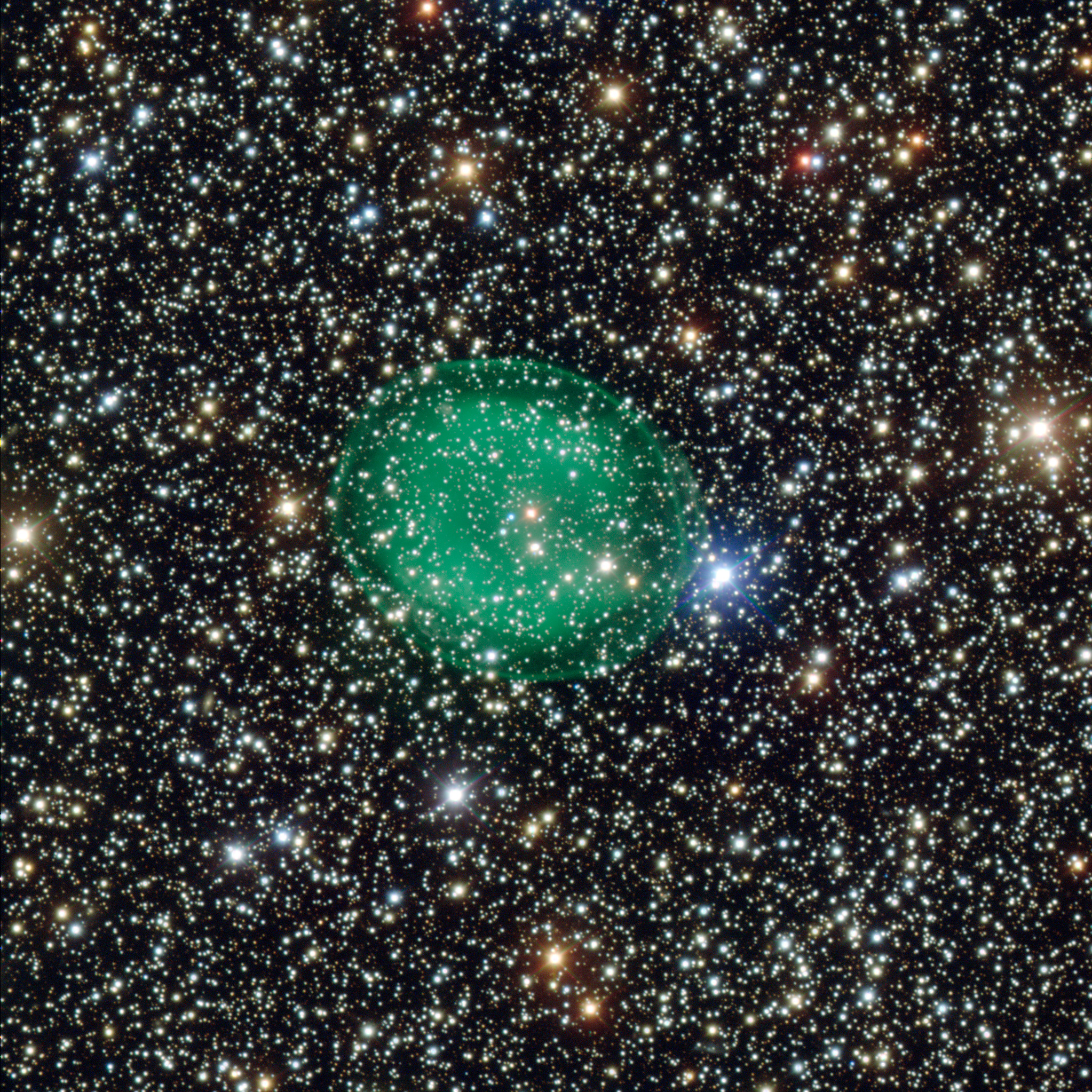 This intriguing picture from ESO’s Very Large Telescope shows the glowing green planetary nebula IC 1295 surrounding a dim and dying star. It is located about 3300 light-years away in the constellation of Scutum (The Shield). This is the most detailed picture of this object ever taken.